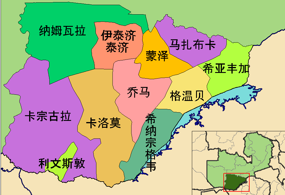 Chinese language was added to locator map Image:Southern Zambia districts.png.